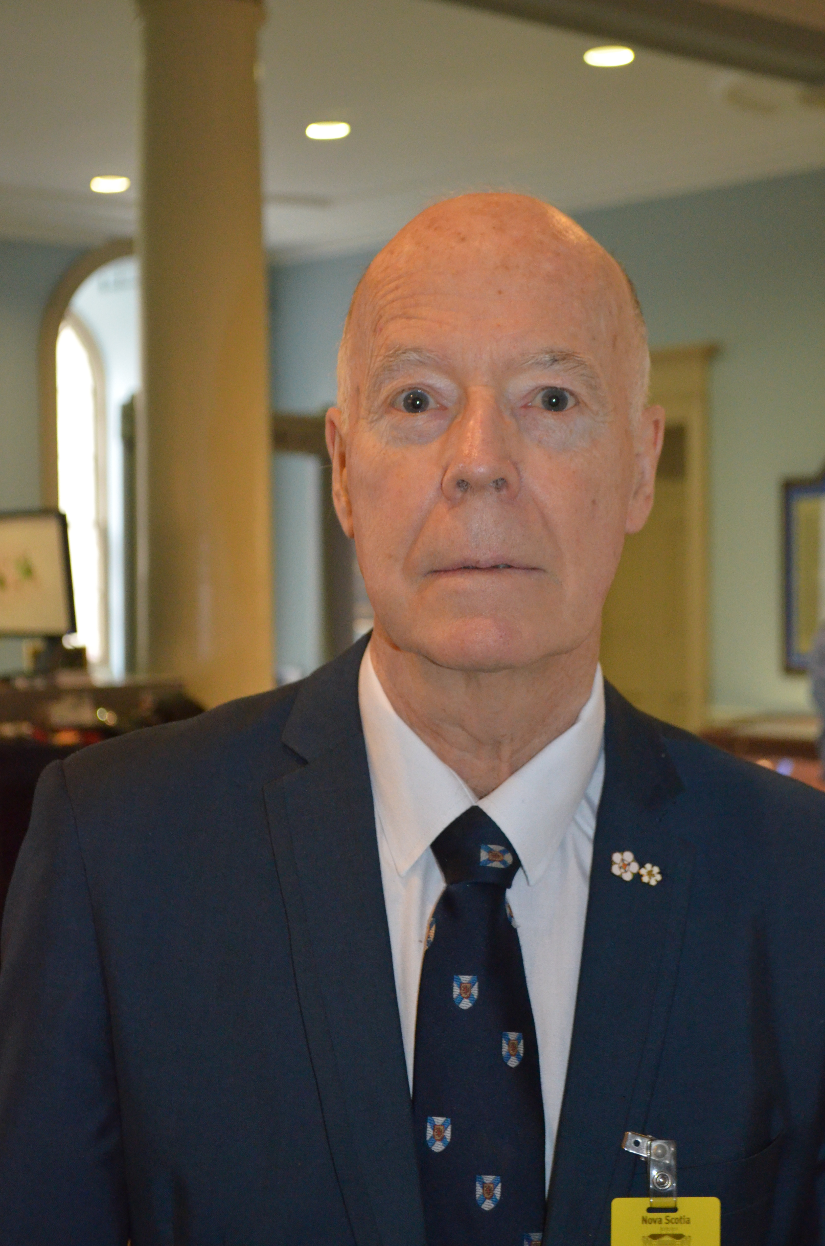 At the Nova Scotia Legislative Assembly of Government.